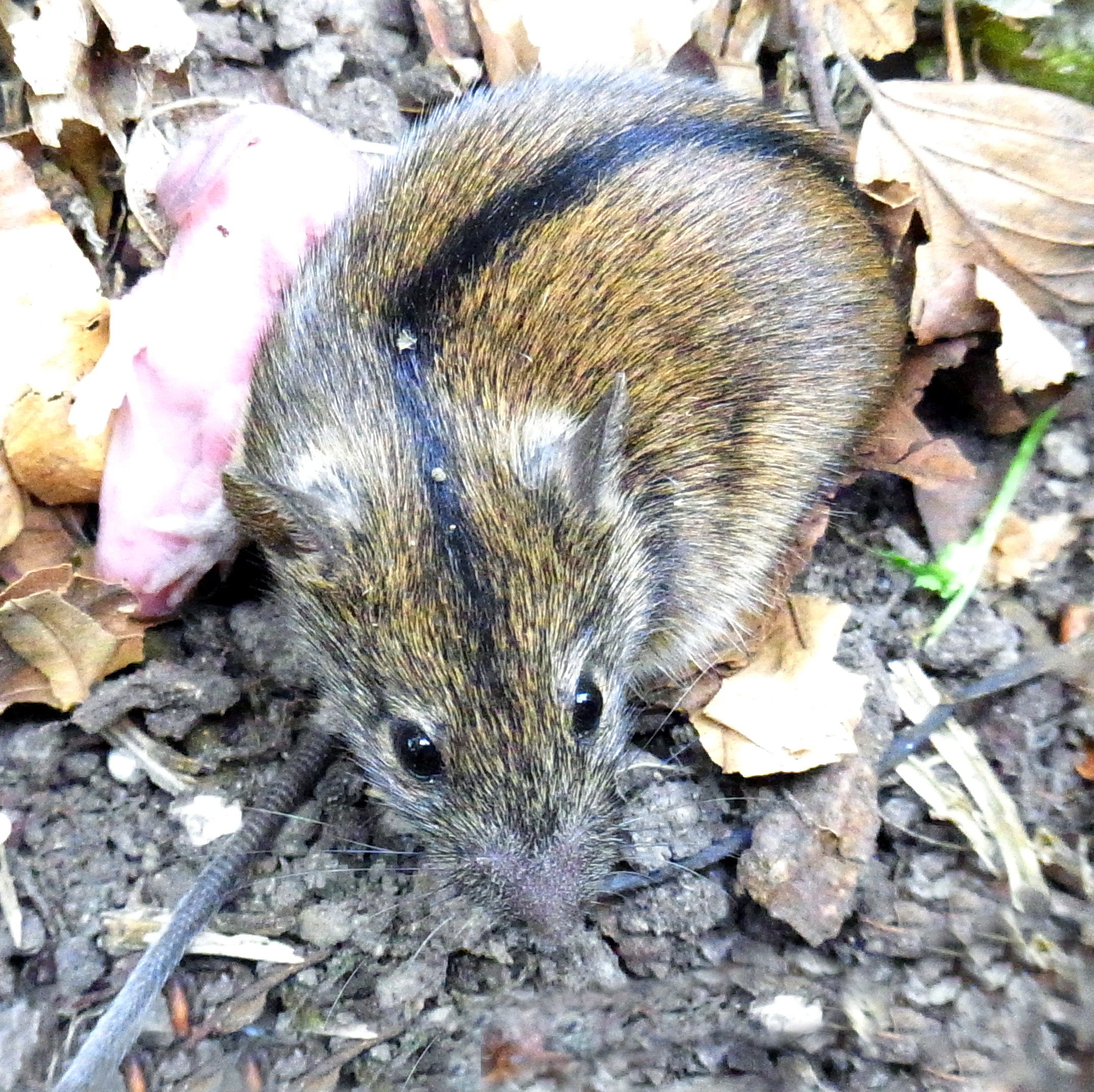 Apodemus agrarius from Hungary Bück-mountains, in nest under beech-log